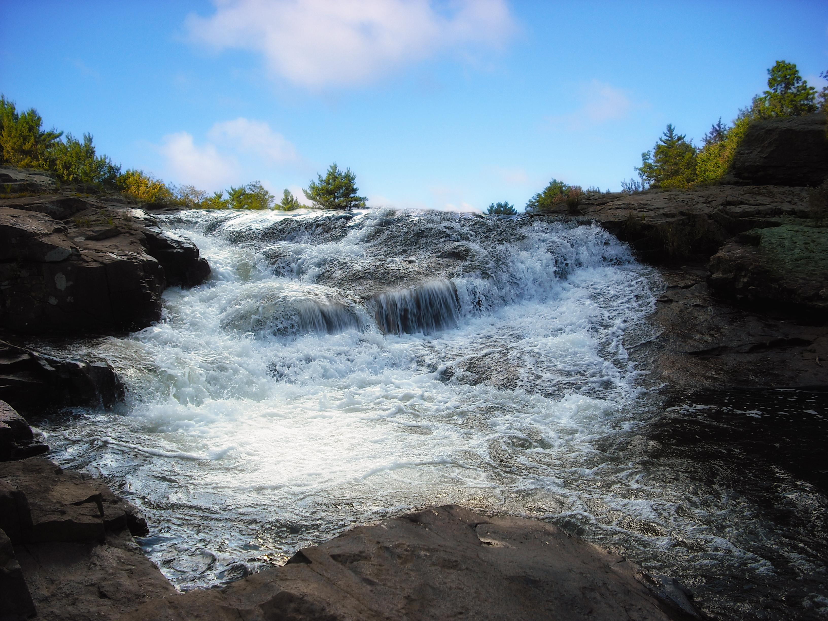 Tobyhanna Falls, Monroe County. Waterfalls are abundant in the Poconos. The high-elevation plateau areas, with their many lakes and wetlands, retain a lot of water and drop off abruptly to the surrounding lowlands.